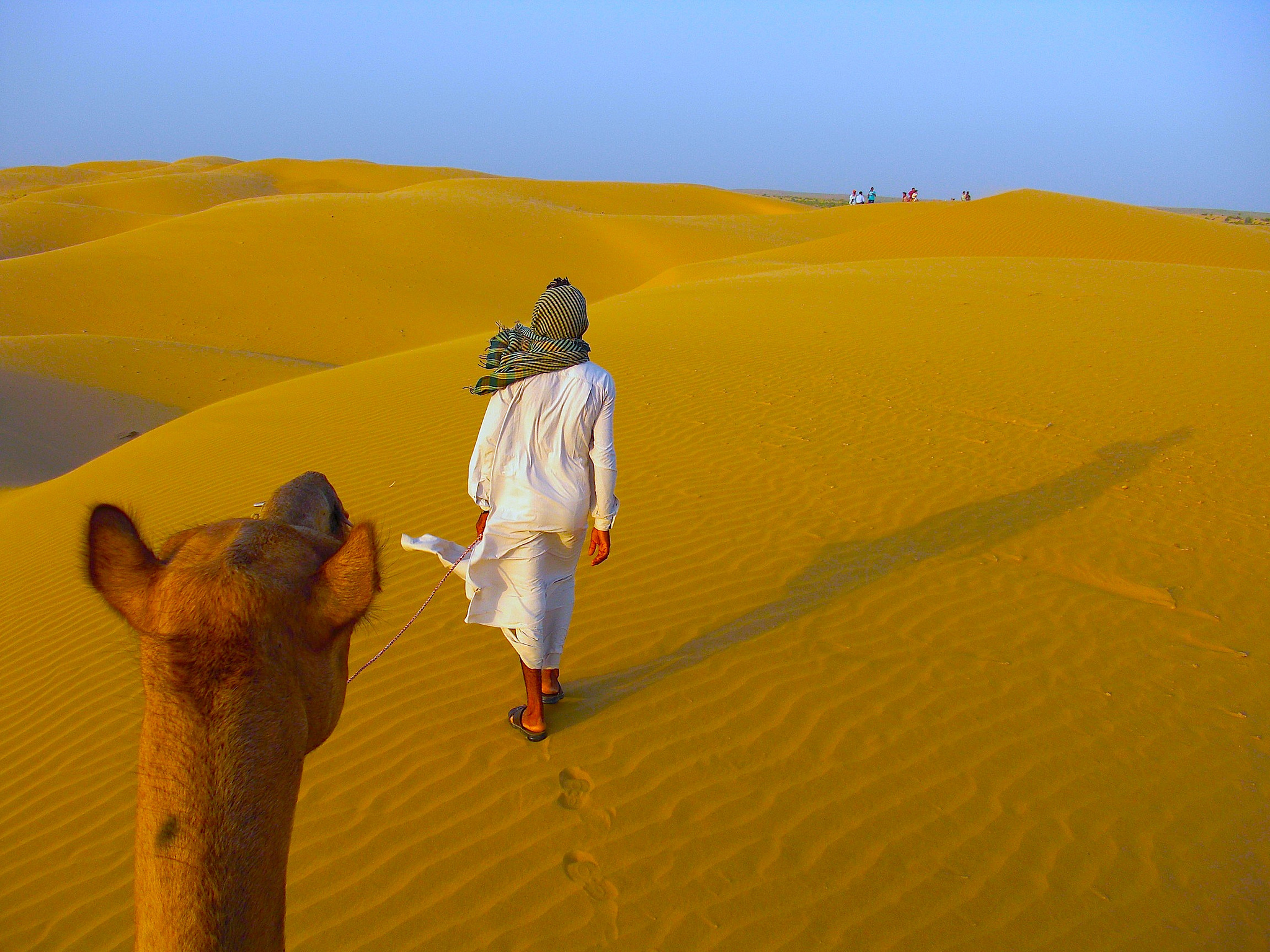 Jaisalmer, Thar Desert